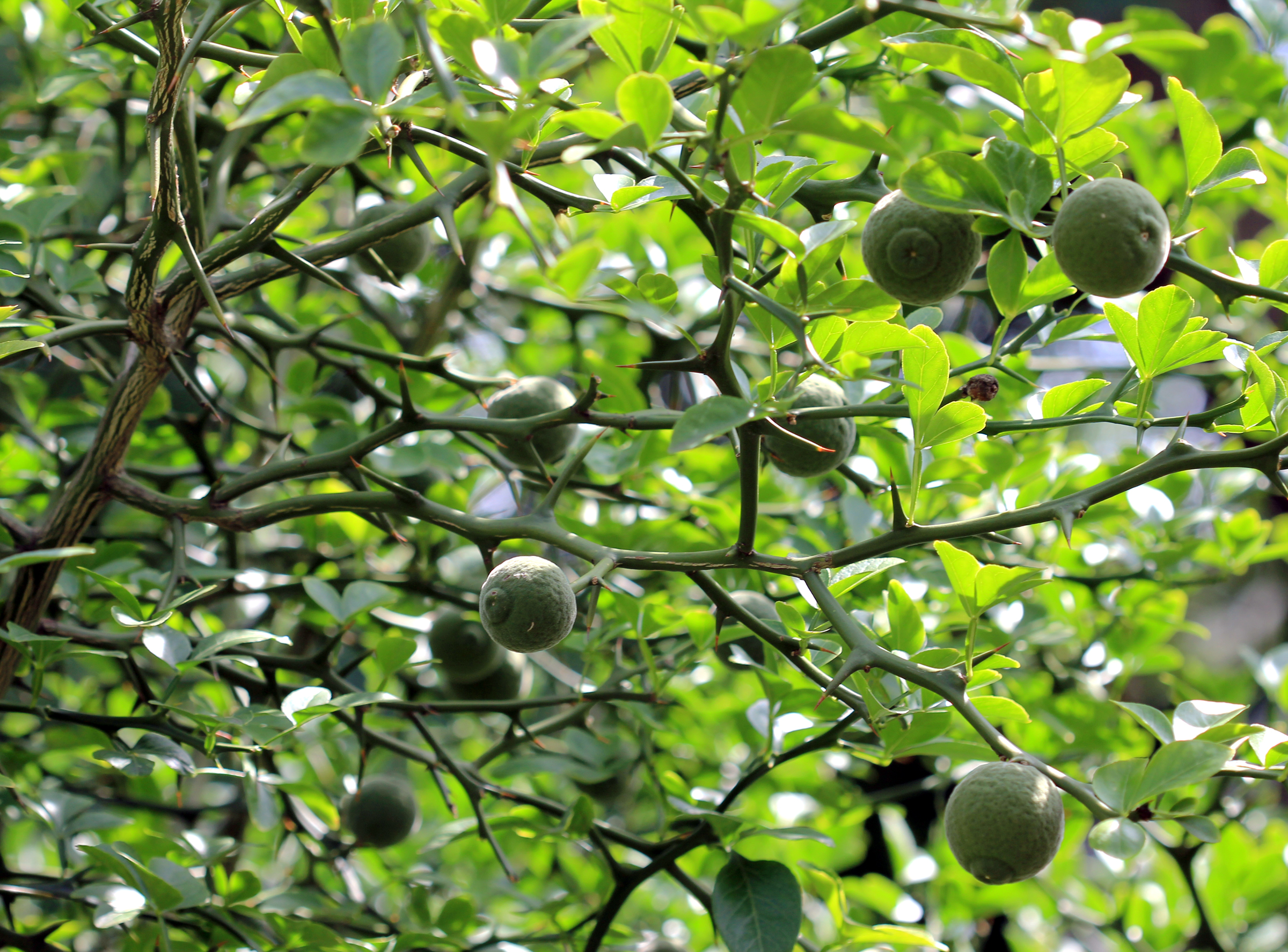 Fruit of tree Trifoliate orange( Poncirus trifoliata) from the Botanical Gardens of Charles University, Prague, Czech Republic